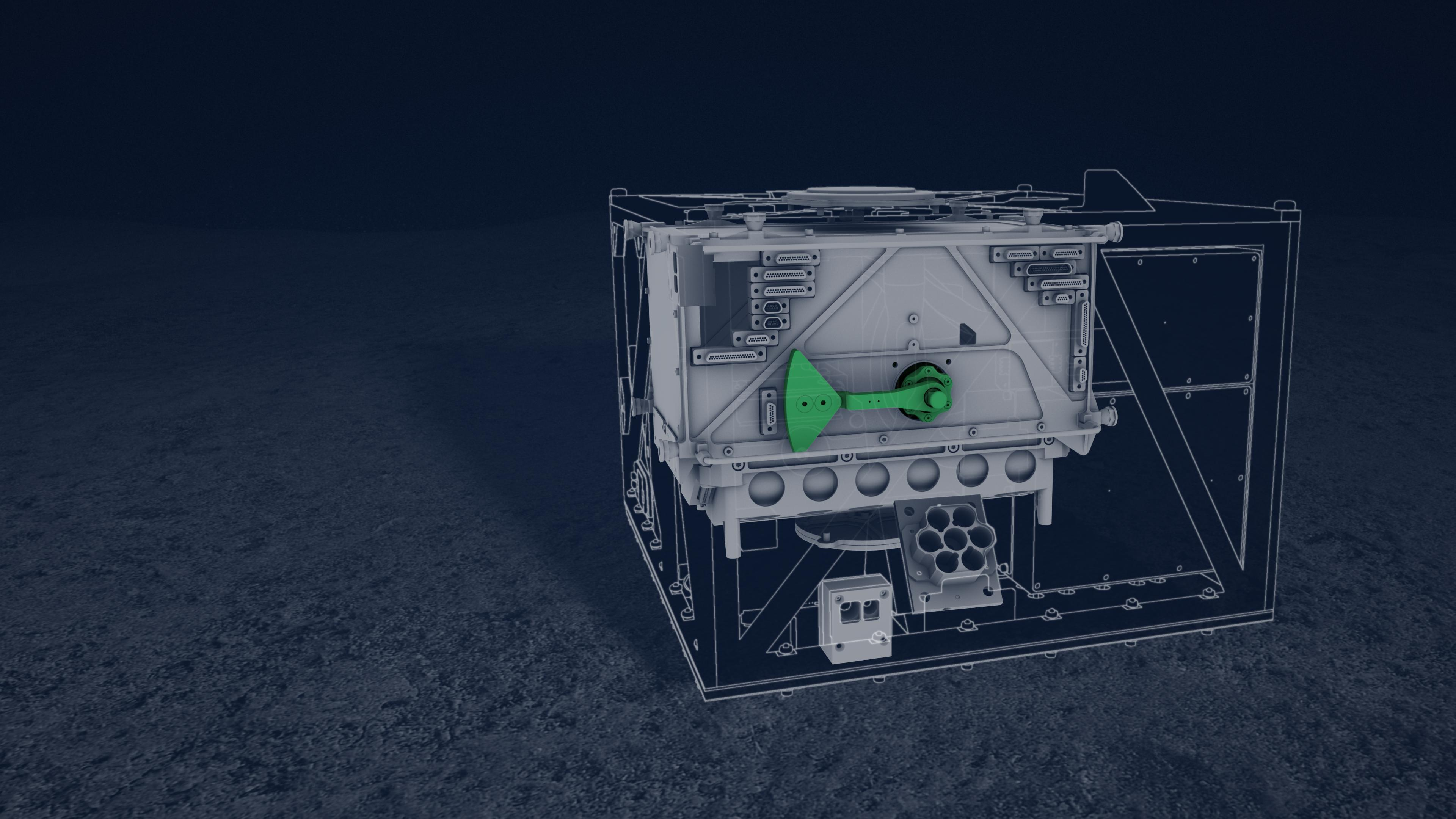 Lander MASCOT (Hayabusa2 probe) and its hopping mechanism